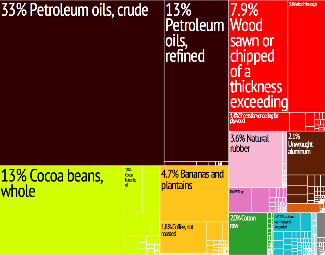 Cameroon Export Treemap from MIT Harvard Economic Observatory